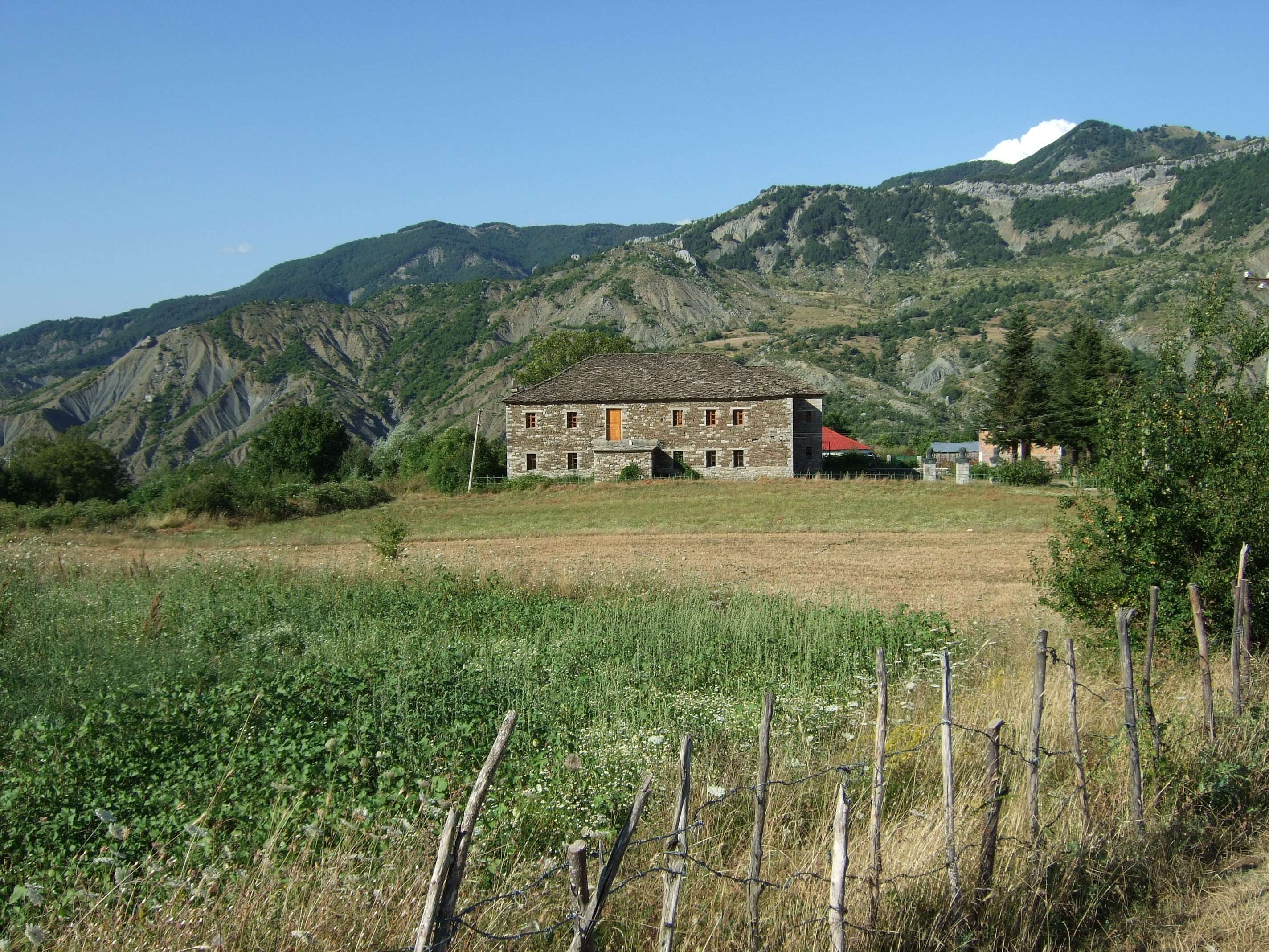 Original file Museum at village Frashër, Albania, slightly inclined (Ursprünglicher Name Dscf F30-2 011791 Dorf Frasher Museum)